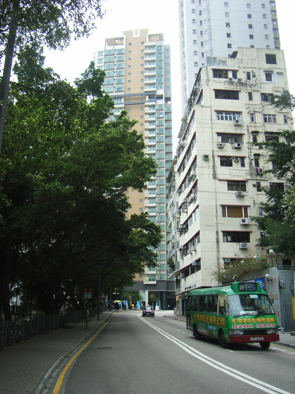 匯賢居: Center Place, No.1 High Street, Sai Ying Pung, Hong Kong Author:CenterPS